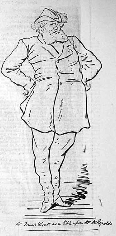 Illustration of Frank Wyatt caricaturing William Rignold in the burlesque Another Drink (1879) at the Folly Theatre